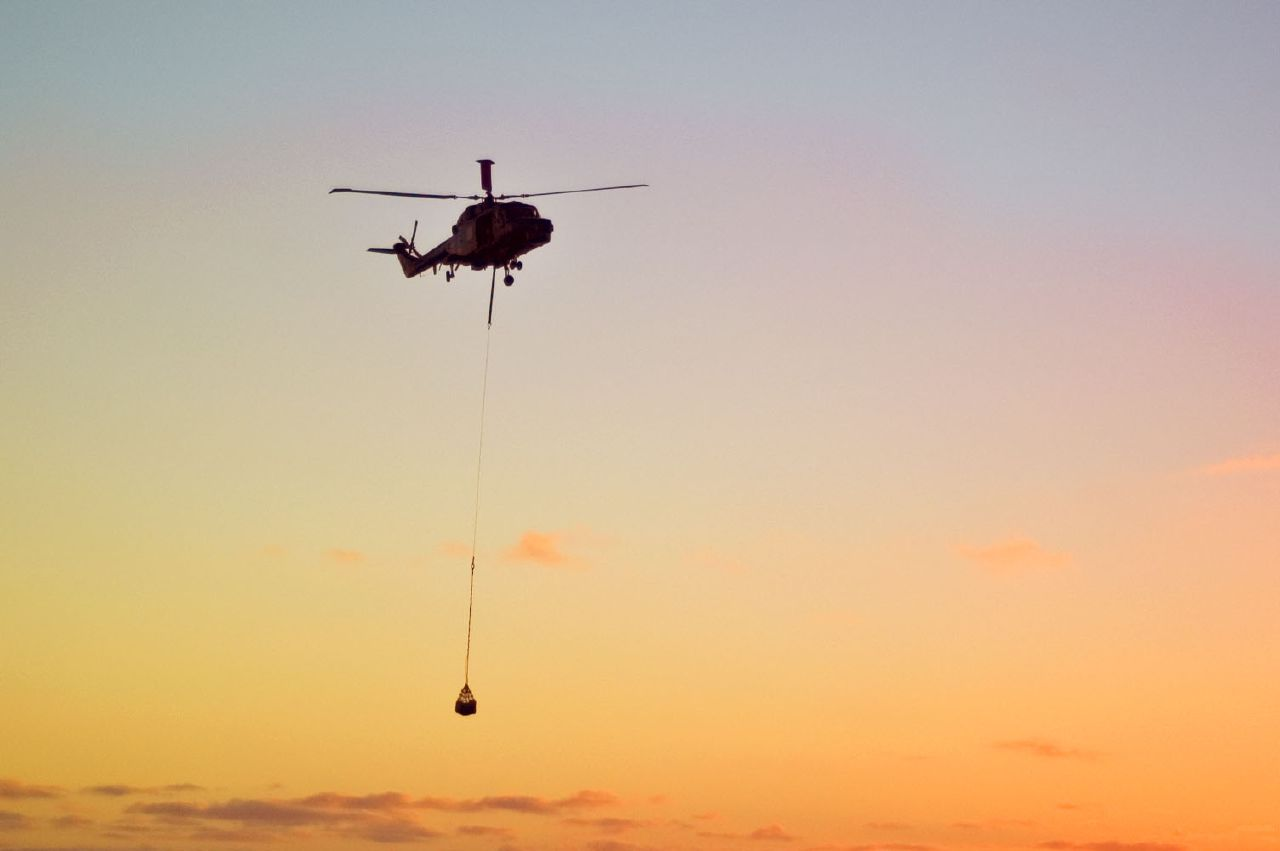 Danish navy helicopter (Westland Lynx) conducting sling cargo lift (VERTREP)